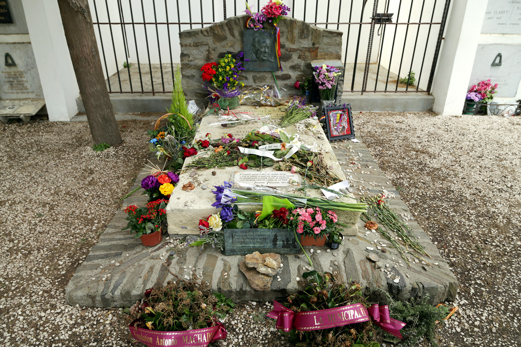 Tomb of Antonio Machado in Collioure.